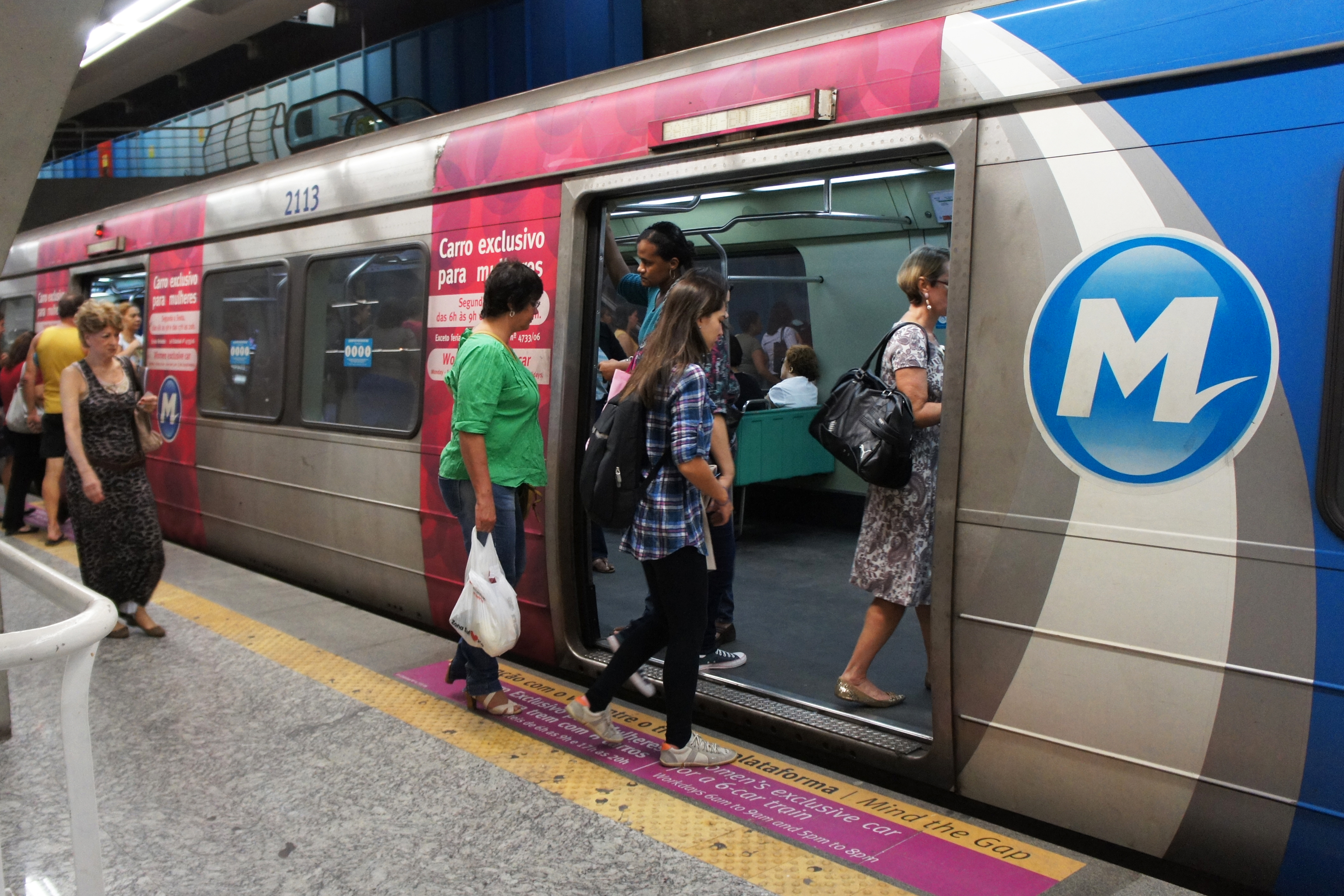 Women-only subway car at Rio de Janeiro Metro. During rush hours only women passenger are allowed in the subway car designated as such.